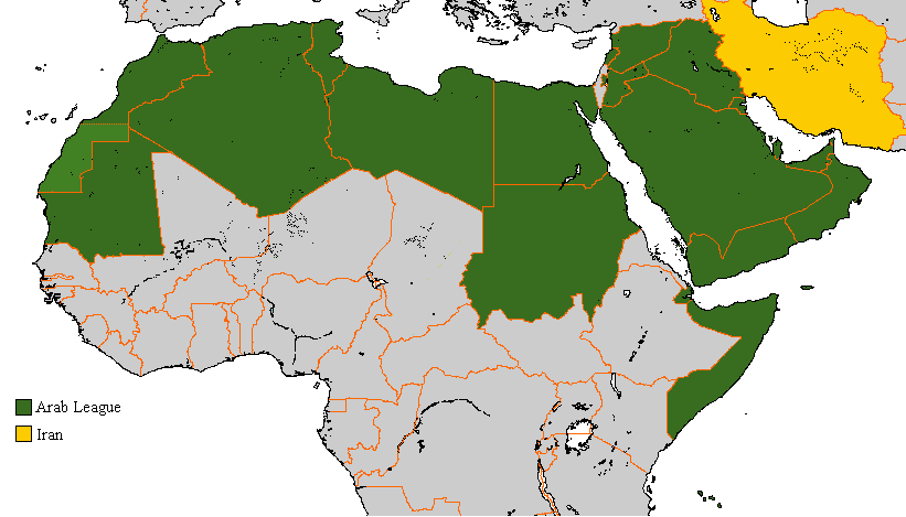 Map of the Arab League (green) and Iran (red)